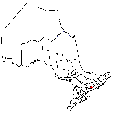 Peterborough, Ontario